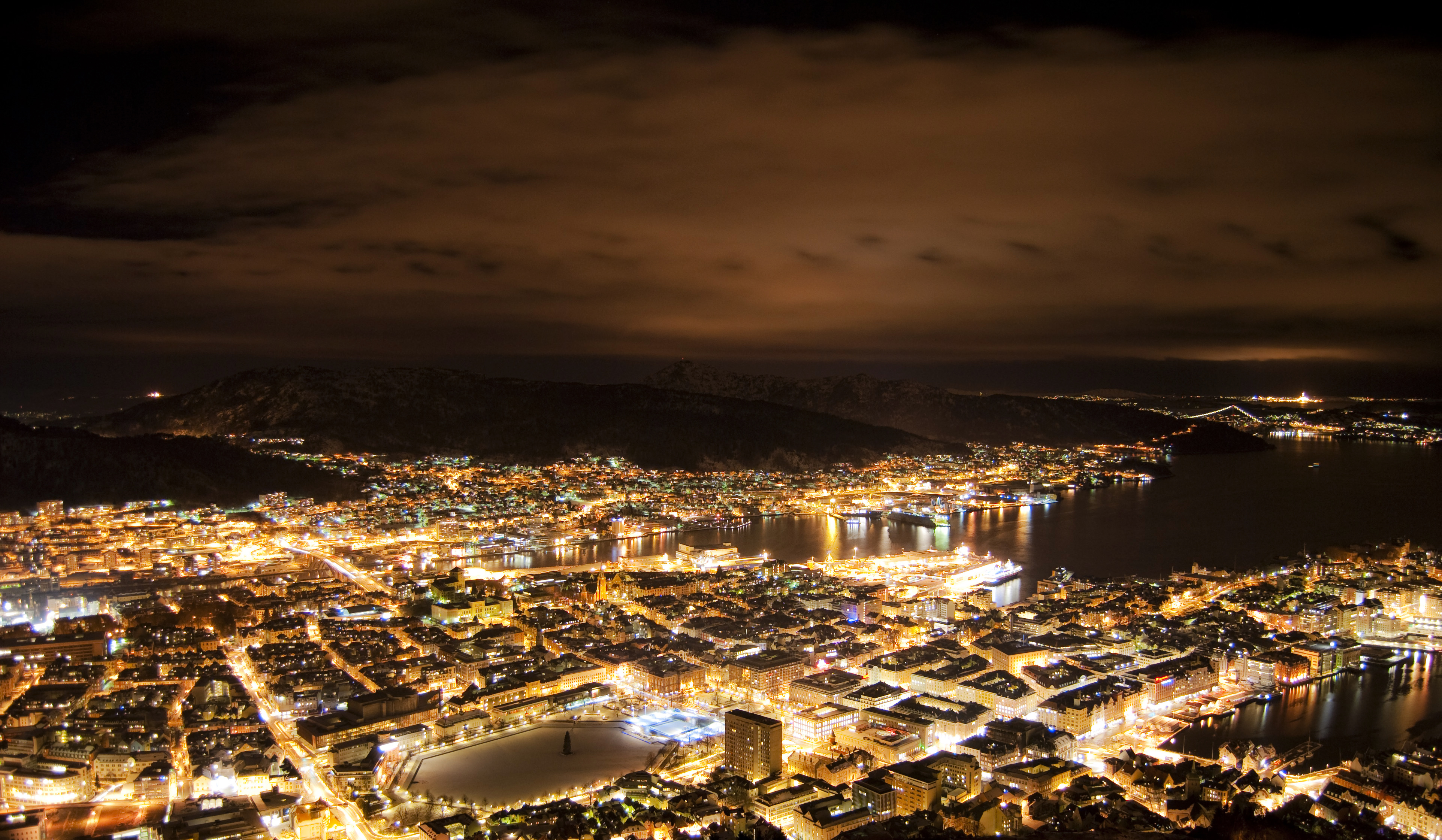 Photography of Bergen city by night. Taken on Fløyfjellet, evening 2010.